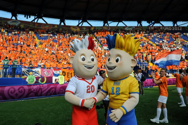 UEFA Euro 2012 match between Netherlands and Denmark that took place in Kharkiv. Final result was 0:1 (Krohn-Delhi)